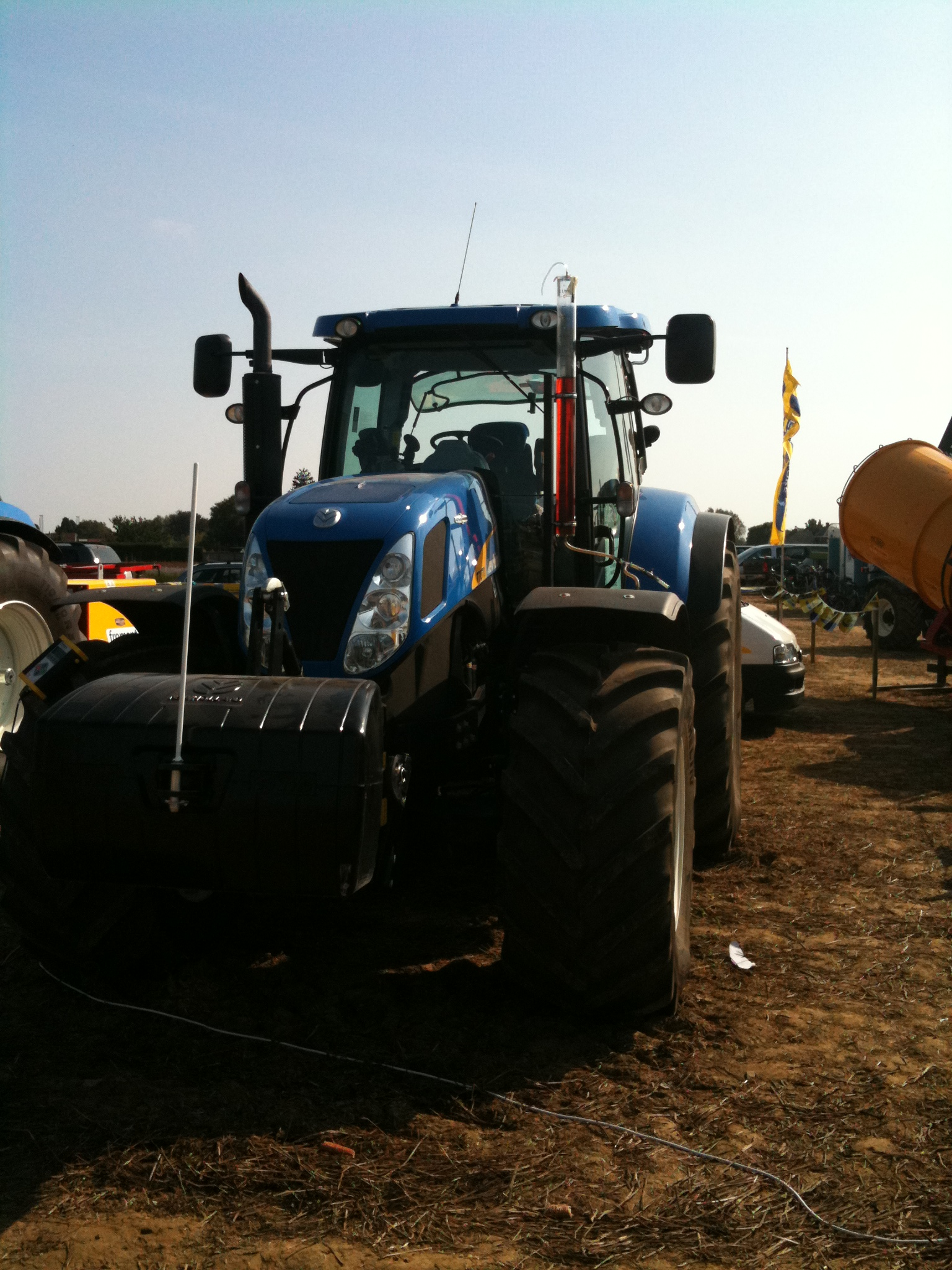 Fuel economy in tractors is made visible. The tractor takes the fuel from the graduated cylinder on the right part of this photo.